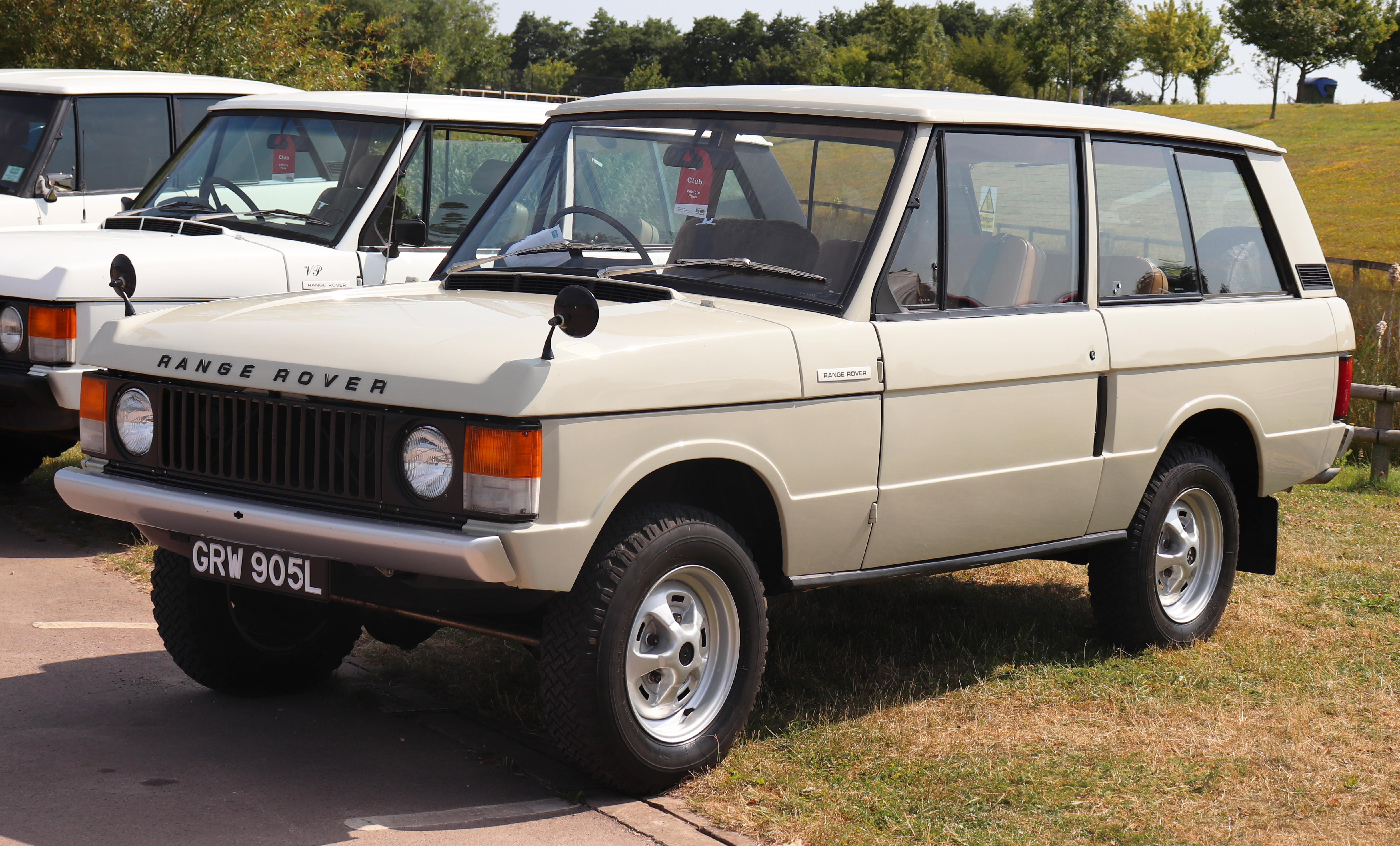 1973 Land Rover Range Rover 3.5 Taken at the British Motor Museum BMC & Leyland Show 2018, Gaydon